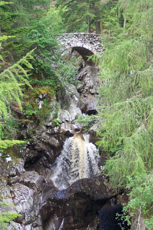 Upper bridge, Falls of Bruar, Scotland